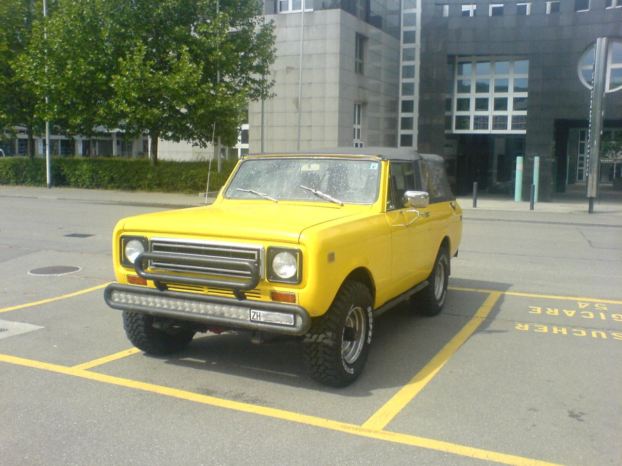 International Harvester Scout II 1979